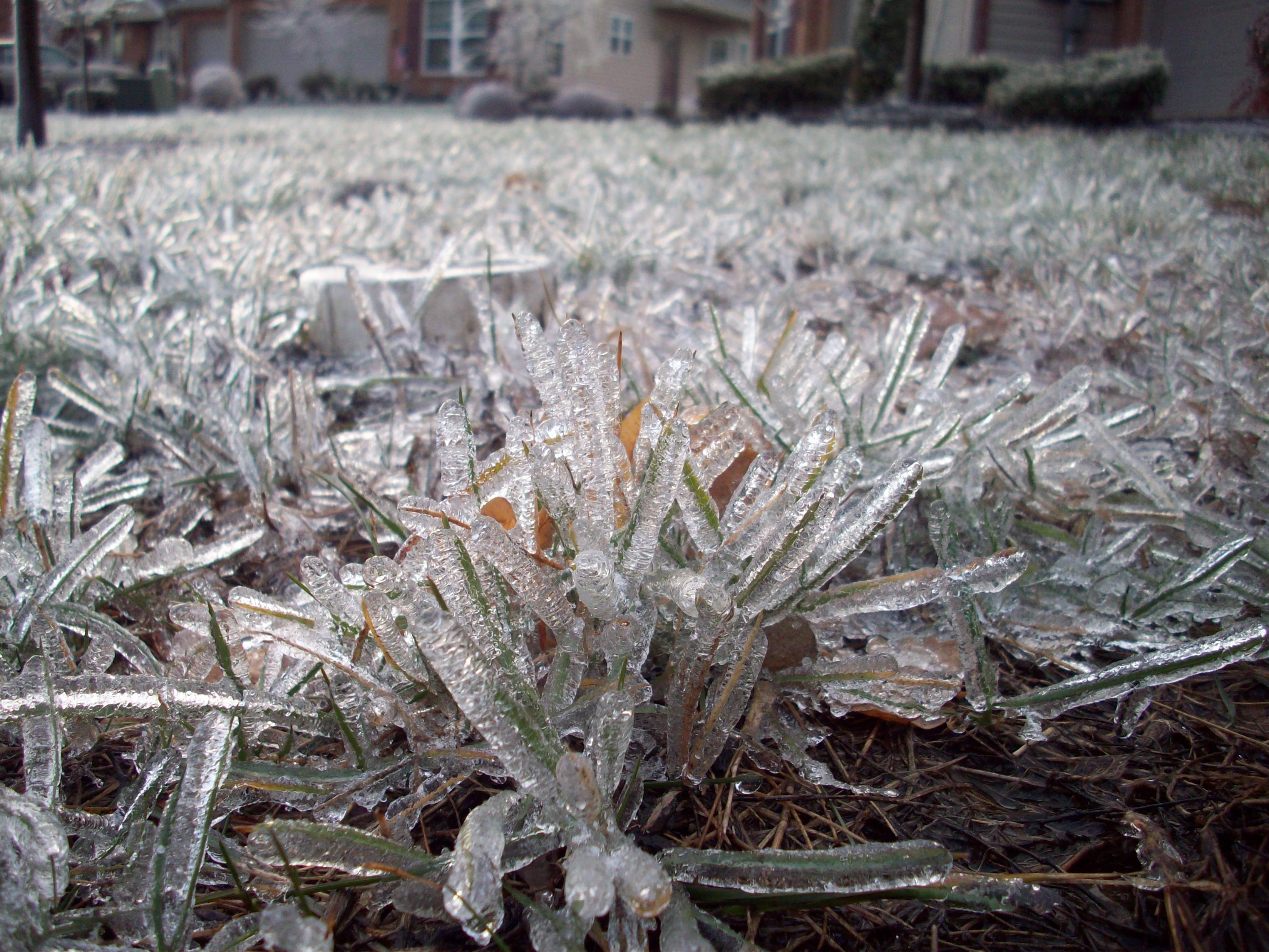 Ice glaze on grass, taken in Pennsylvania, USA during freezing rain on December 16, 2007